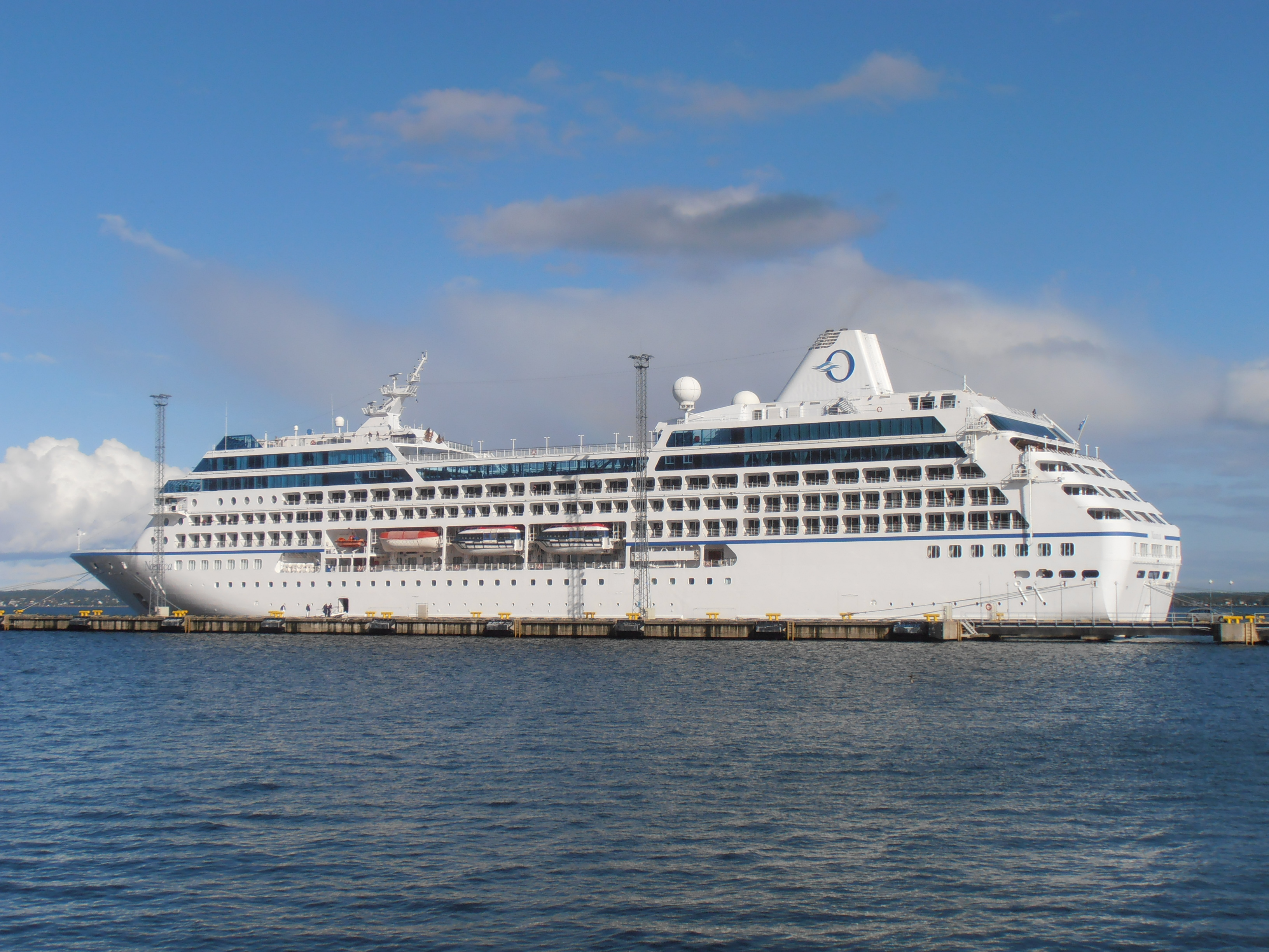 Nautica Pier 25 Tallinn 21 September 2012